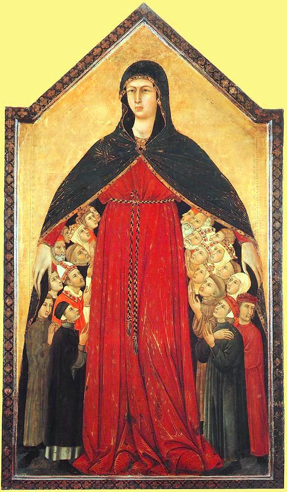 Madonna of Mercy